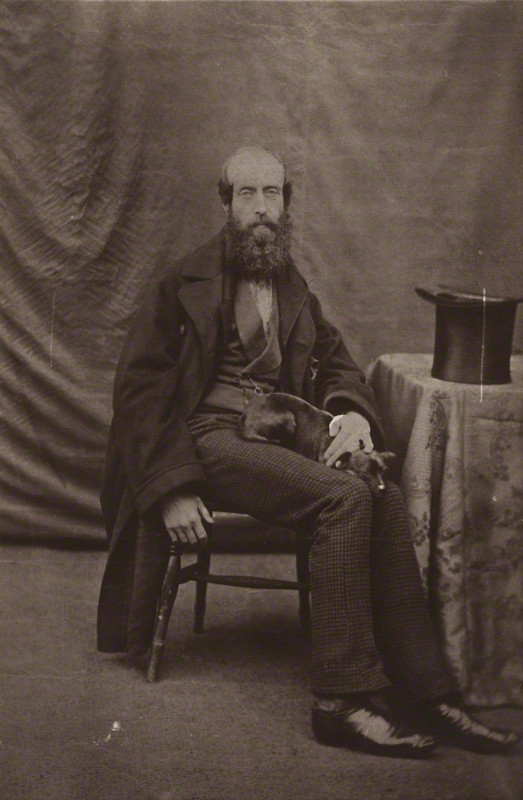 Photograph of Henry Charles Sirr by Unknown photographer, sepia-toned matte print, 1860s. Sirr was the son of Henry Charles Sirr, who served as Town Major of Dublin during the 1798 rebellion.